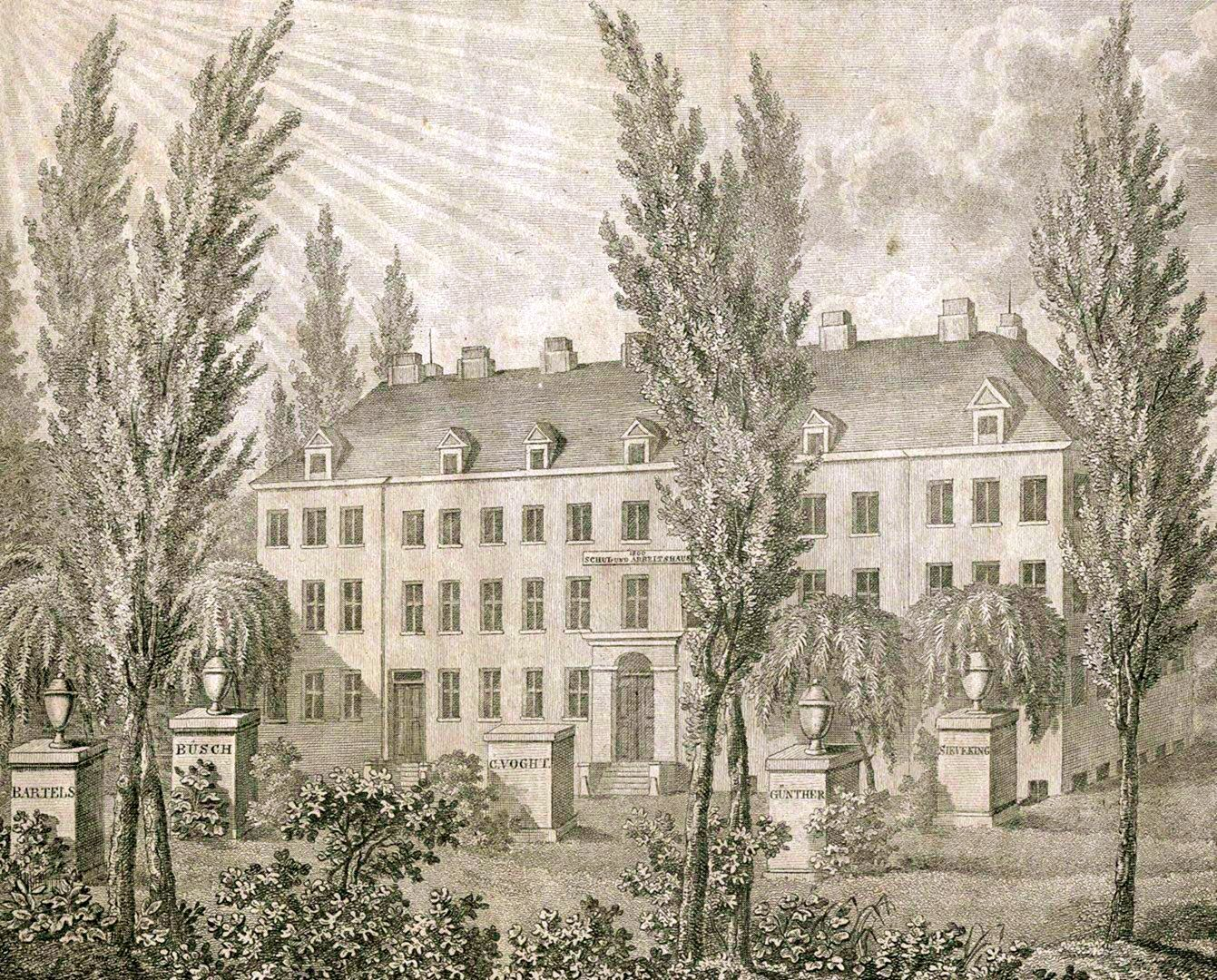 Dedicated to the Love of Humanity by Friends of Humanity Steel engraving by L. Wolf from the year 1805 Idealized view of the Hamburg School and Work House (1800). The names of the important Hamburg social workers and reformers Bartels, Büsch, Voght, Günther, and Sieveking are engraved on the plinths in the foreground.